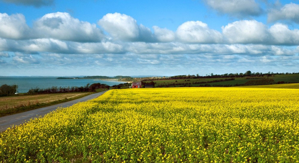 Landscapes of the islands Fyn (Denmark)